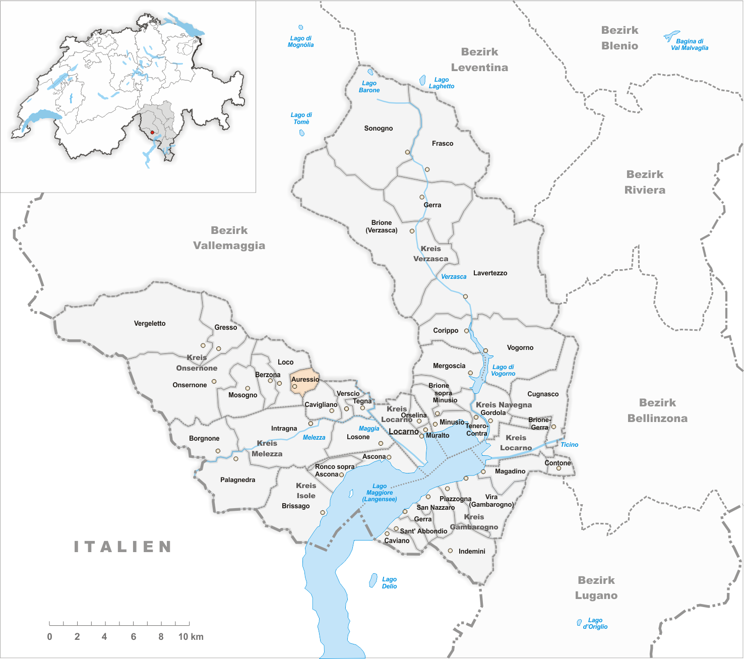 Municipality Auressio